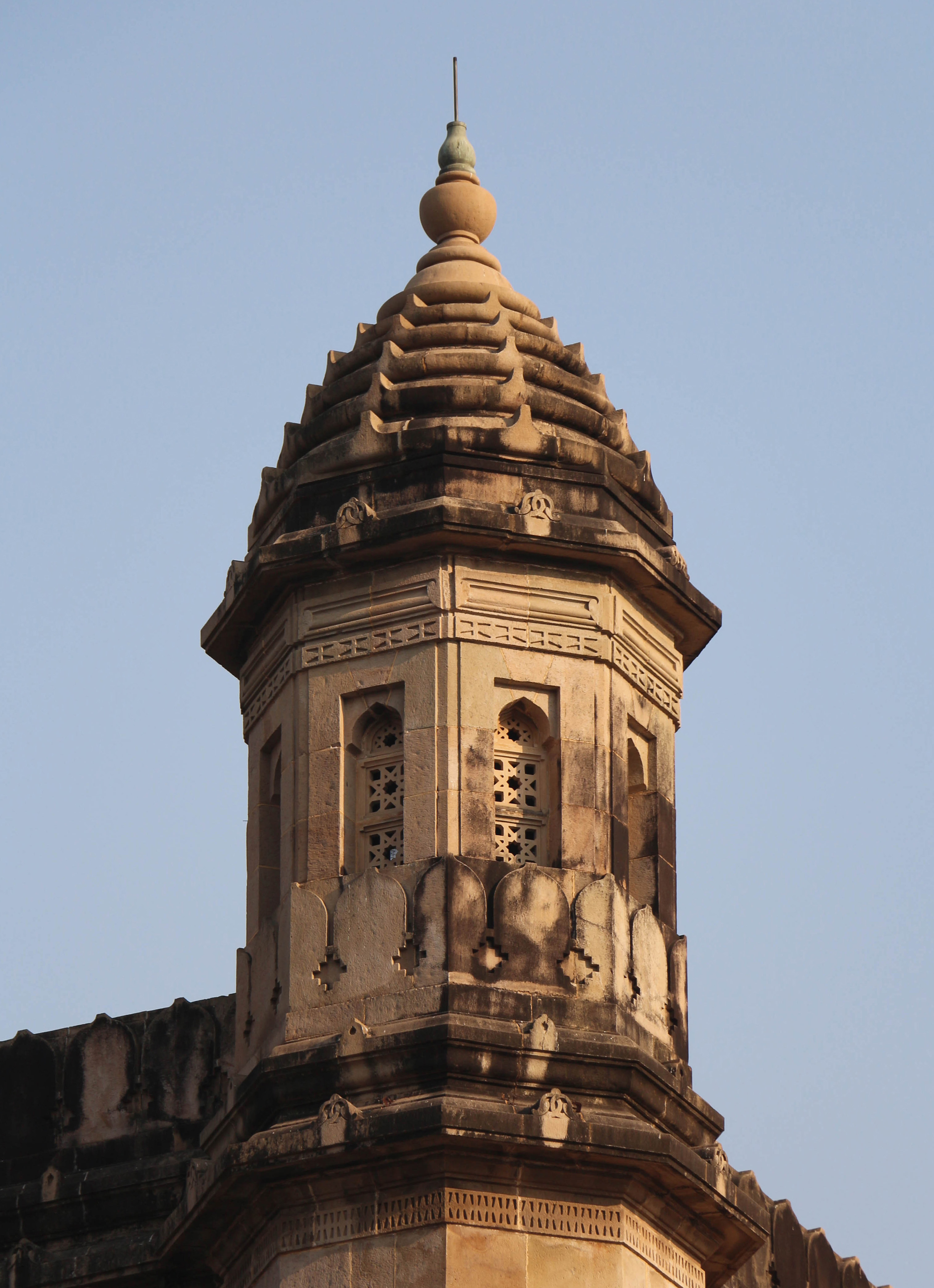 One the turrets of the Gateway of India, Mumbai, India